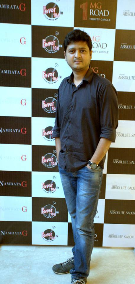 Abhinav Kamal, Director Ten Motion Arts